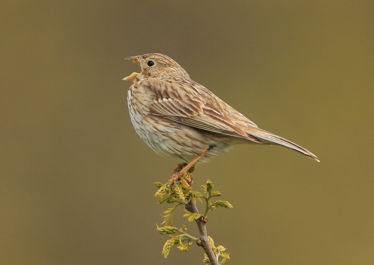 Emberiza calandra (Corn Bunting), Bulgaria. Classic pose on a favourite perch. If only the Nightingales and Cuckoos would take the hint!